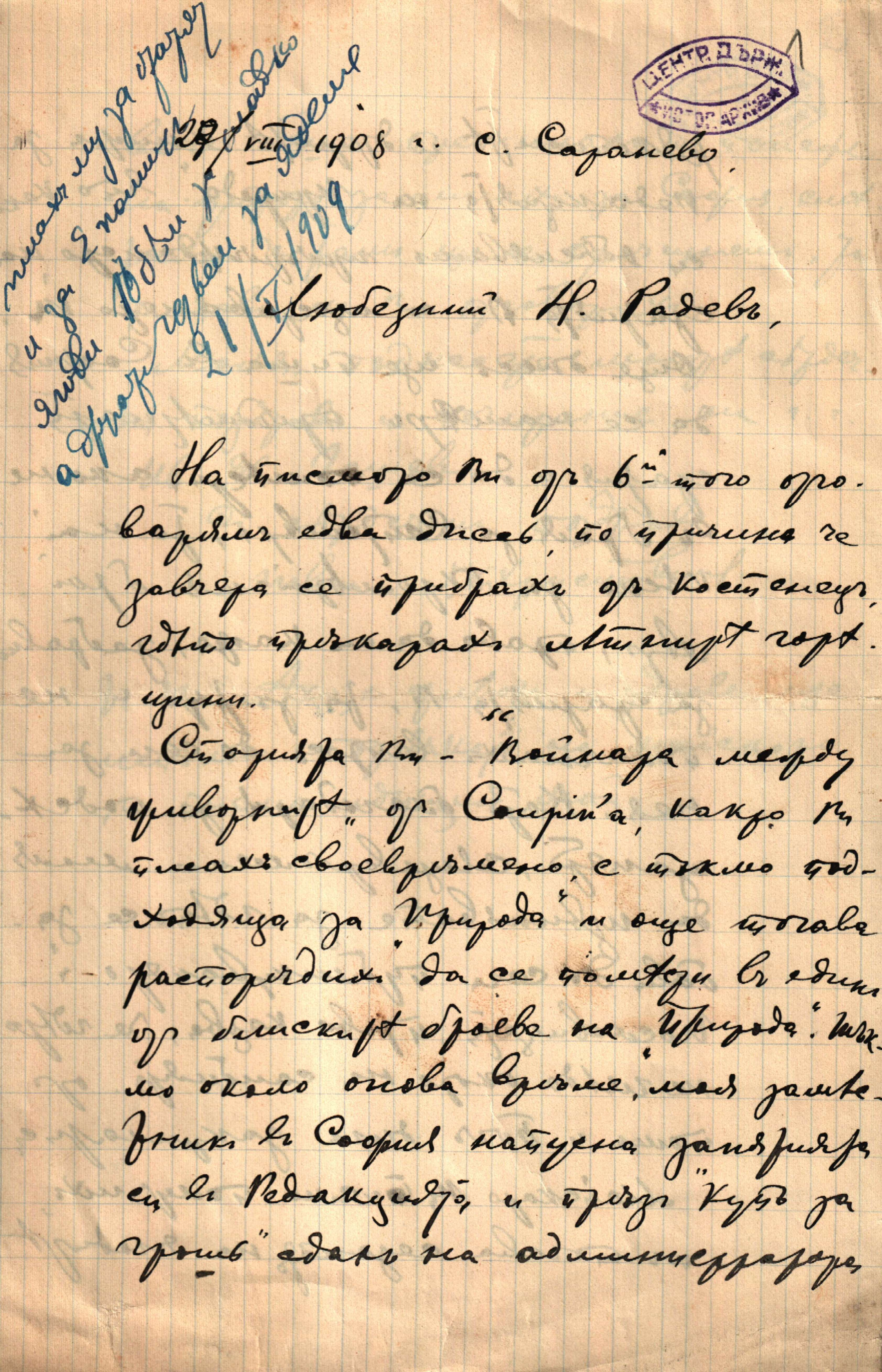 Letter from Georgi Hristovich to Nikola Radev, 1908